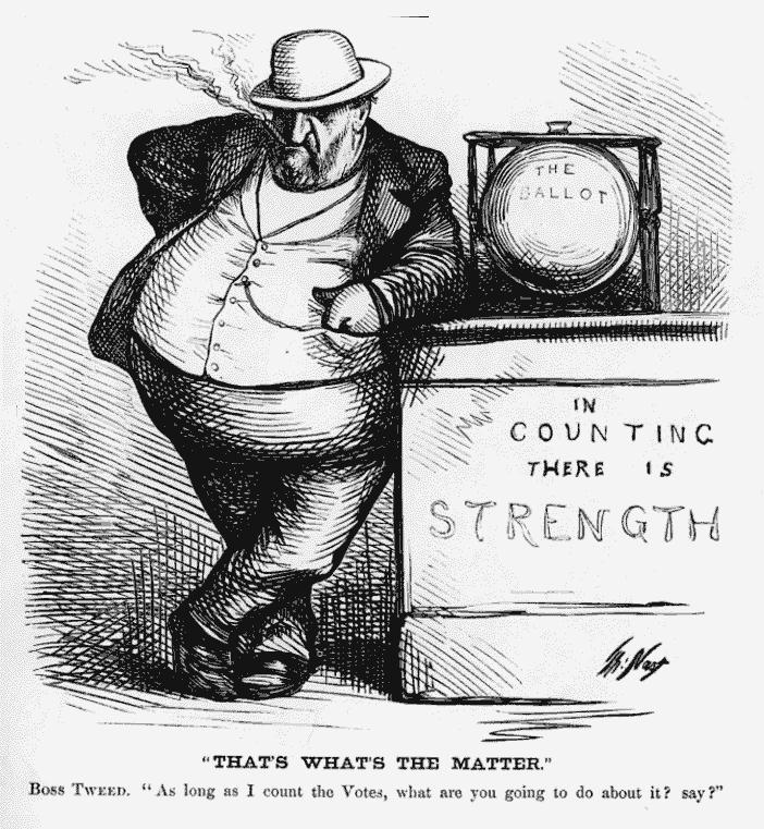 Caricature of Boss Tweed and election fraud by Thomas Nast. Includes three quotes: In counting there is strength That's what's the matter As long as I count the Votes, what are you going to do about it? Say?